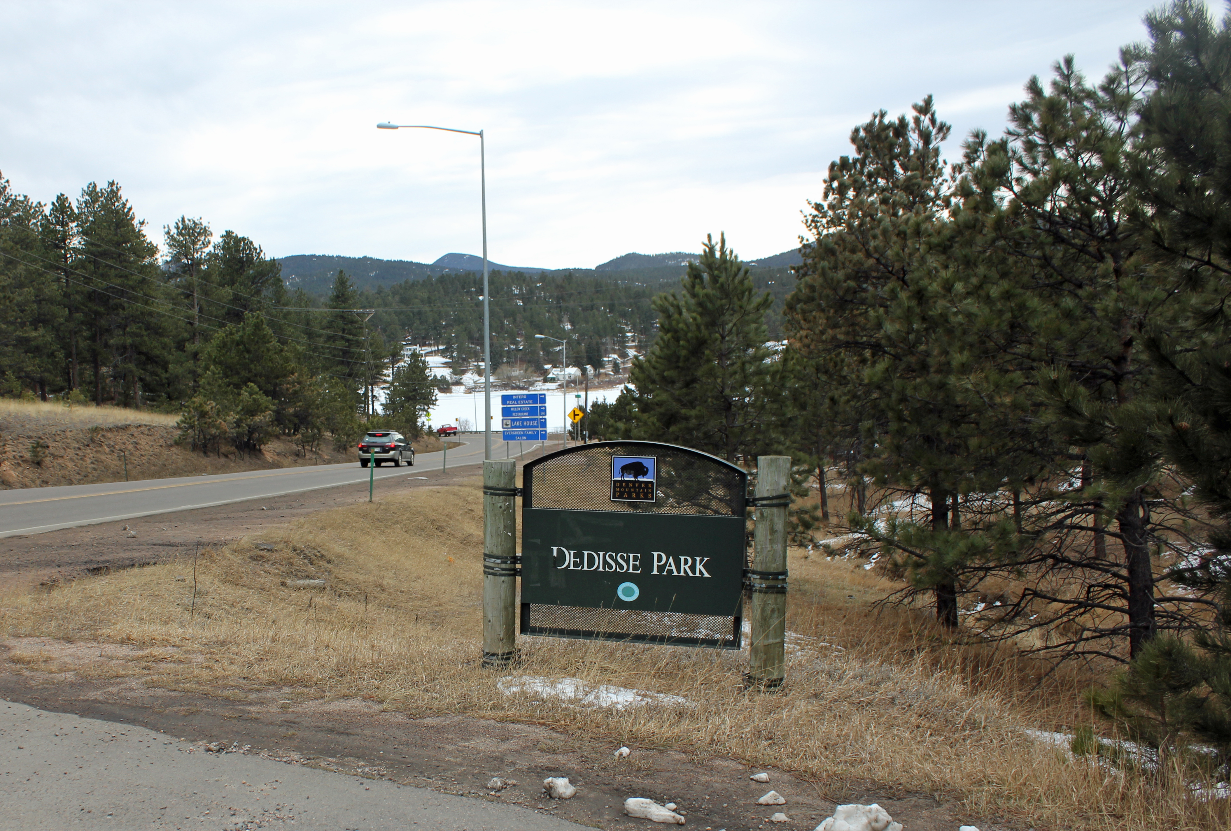 Dedisse Park, located in Evergreen, Jefferson County, Colorado. The park is one of the Denver Mountain Parks. The road on the left of the picture is State Highway 74, and the frozen lake at the bottom of the hill is Lake Evergreen.